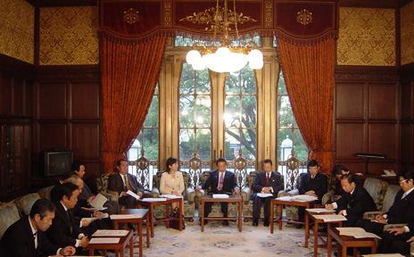 Seiko Noda, Minister of State for Science and Technology, attended a meeting of the Strategic Headquarters for Space Policy at the National Diet Building in Chiyoda Ward, Tōkyō Metropolis on December 2, 2008.